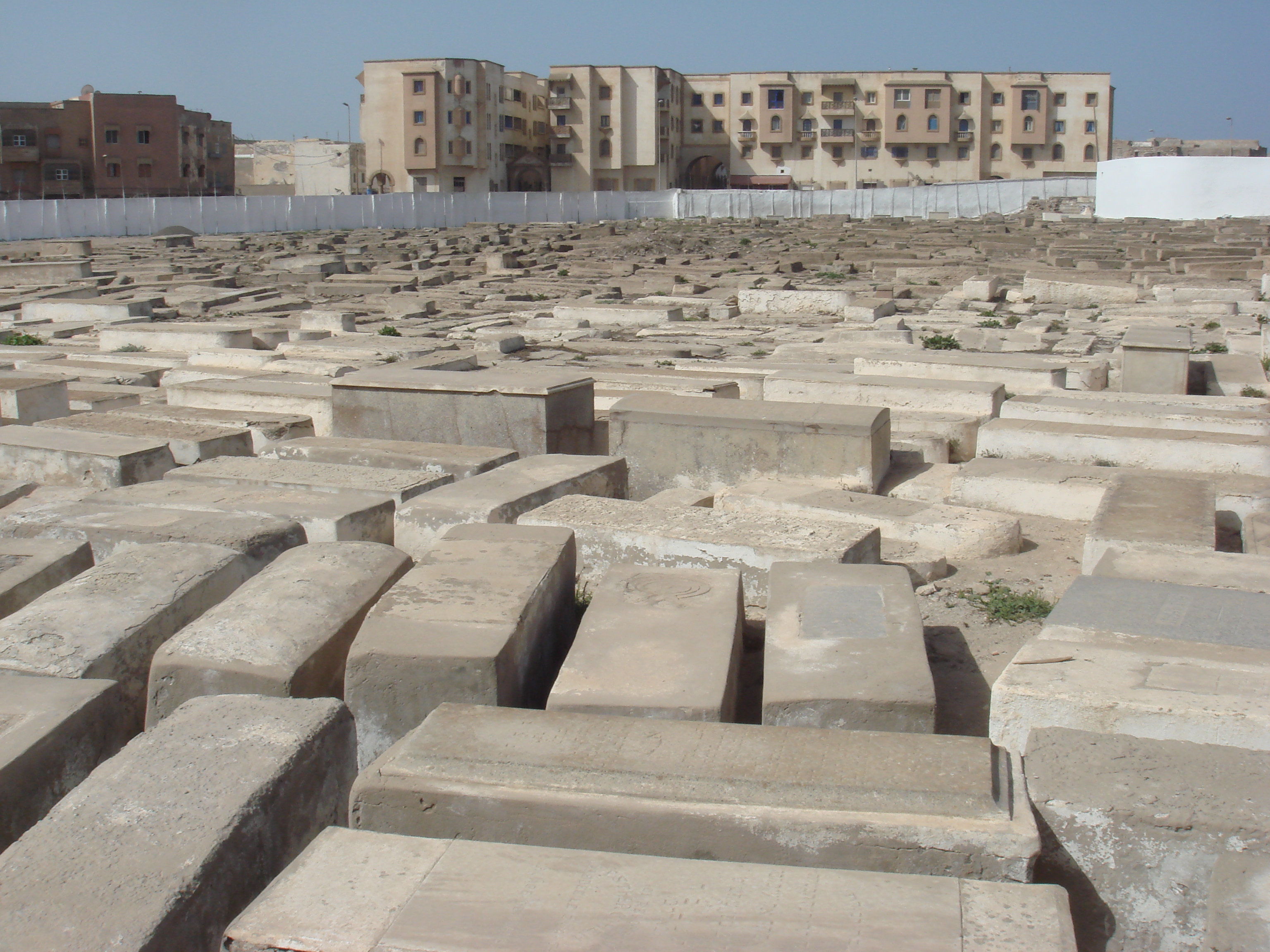 The "new" Jewish cemetery in Essaouira, Morroco, which stared to be used from around 1875.